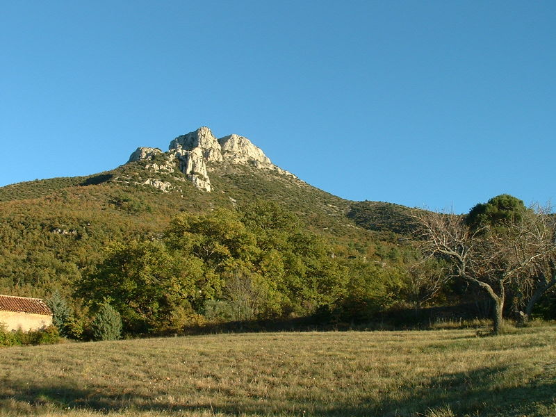 Mont Olympe, in Provence, France, viewed from north (La Boucharde).